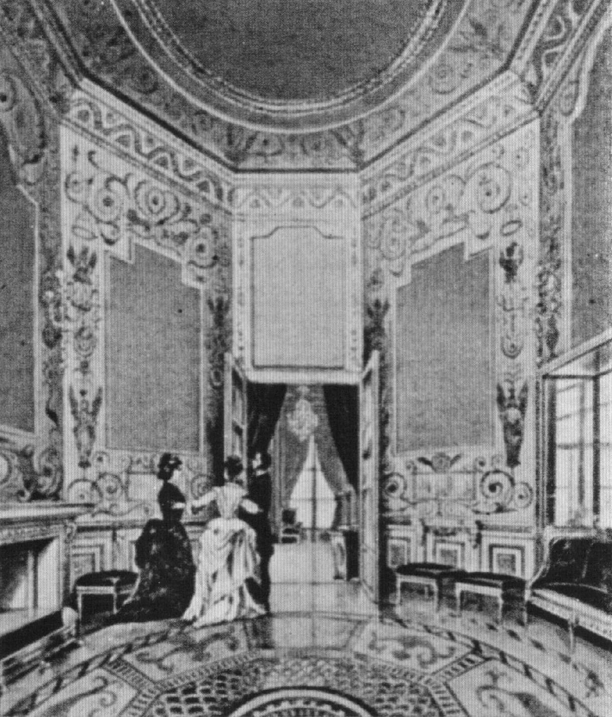 Conference Room at Royal Castle in Warsaw without paintings, robbed by the Russians, 19th cent. engraving